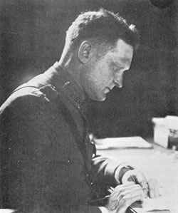 Hans Zinsser while in the army